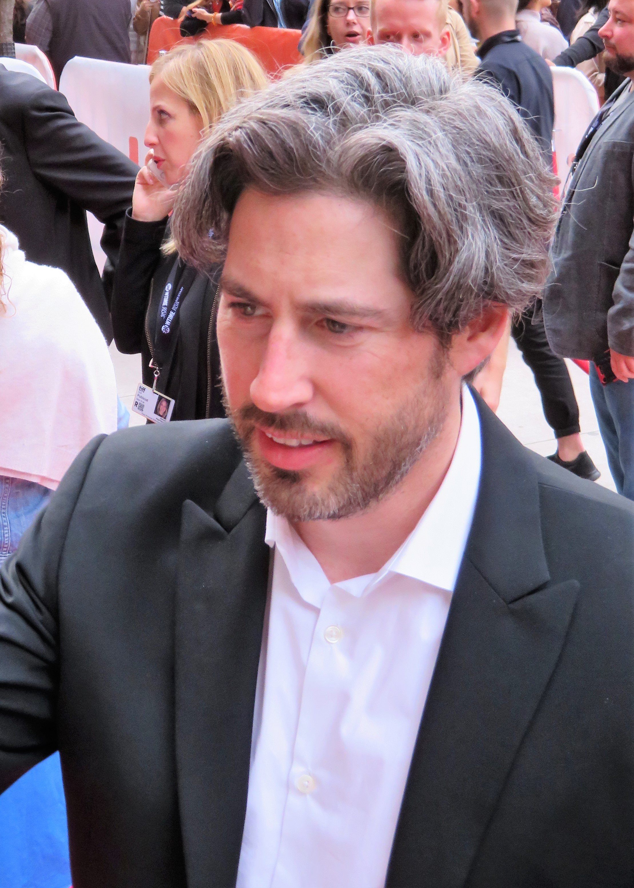 Jason Reitman at the premiere of Front Runner, 2018 Toronto Film Festival